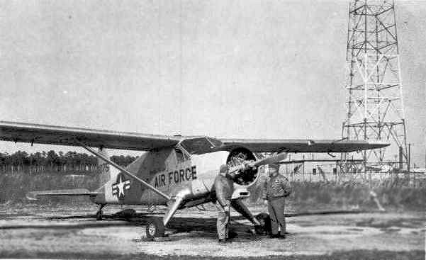 DeHavilland U-1 Beaver at Cape Charles AFS, from the 1960 Washington Air Defense Sector yearbook